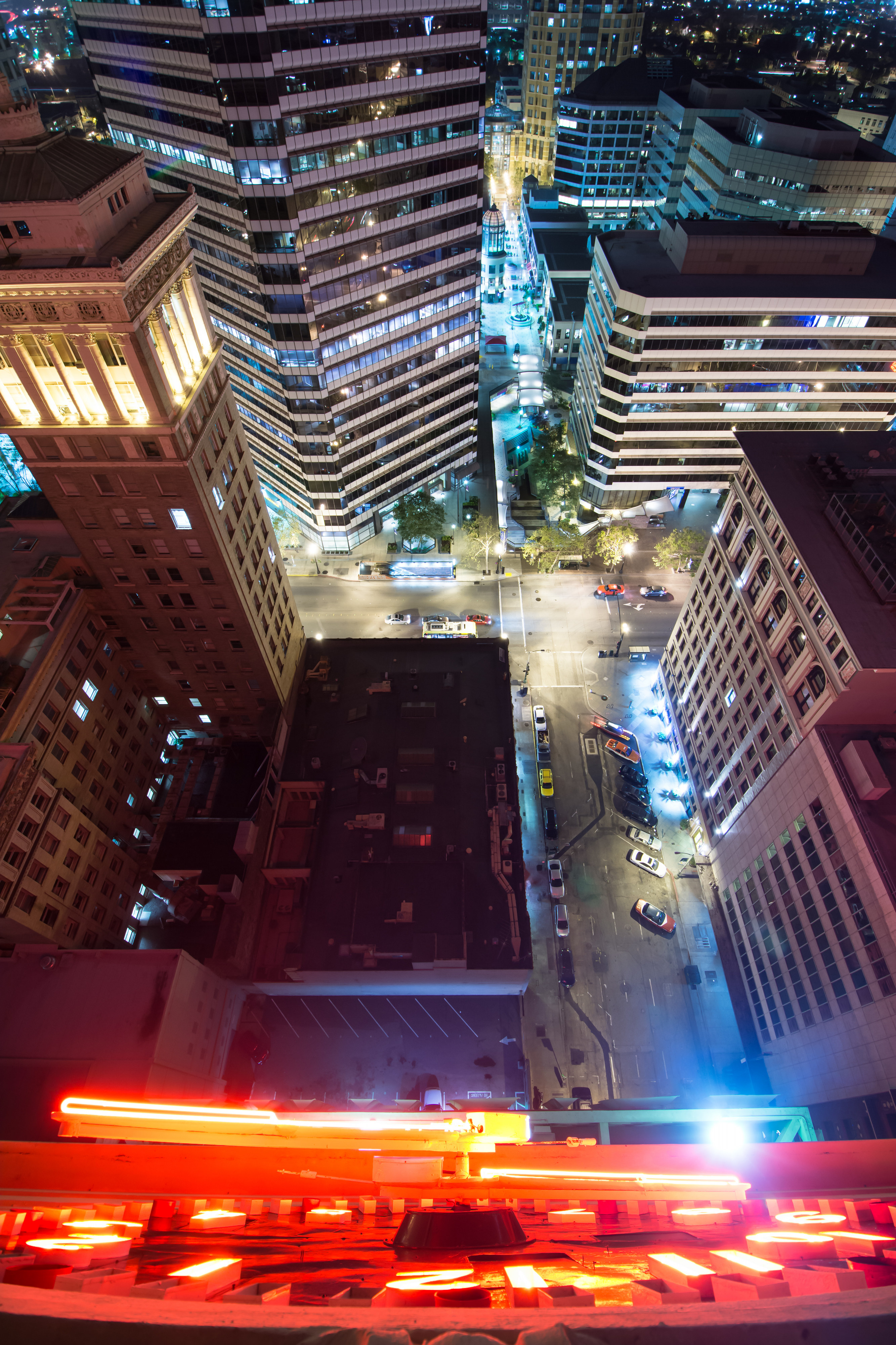 View from Tribune Tower 5/13/13